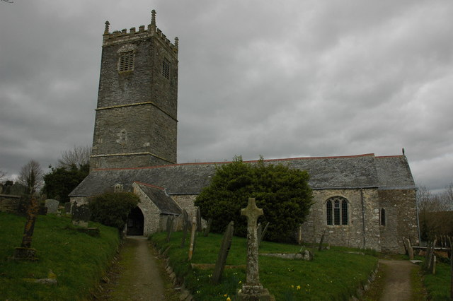 Lanteglos-by-Fowey Church Lanteglos-by-Fowey is dedicated to St Wyllow.